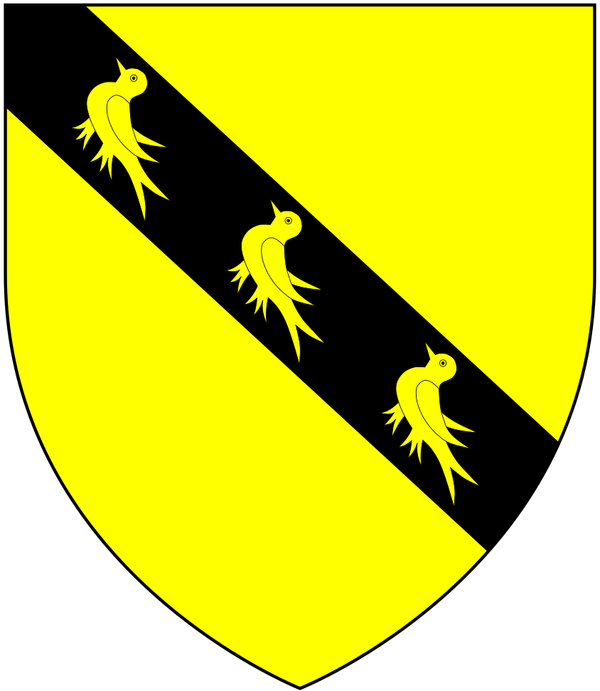 Arms of Harding of Upcott in the parish of Pilton and of Buzzacott in the parish of Combe Martin, both in Devon: Or, on a bend sable three martlets of the field (Reed, Margaret A., Pilton, its Past and its People, Barnstaple, 1985, p.243)